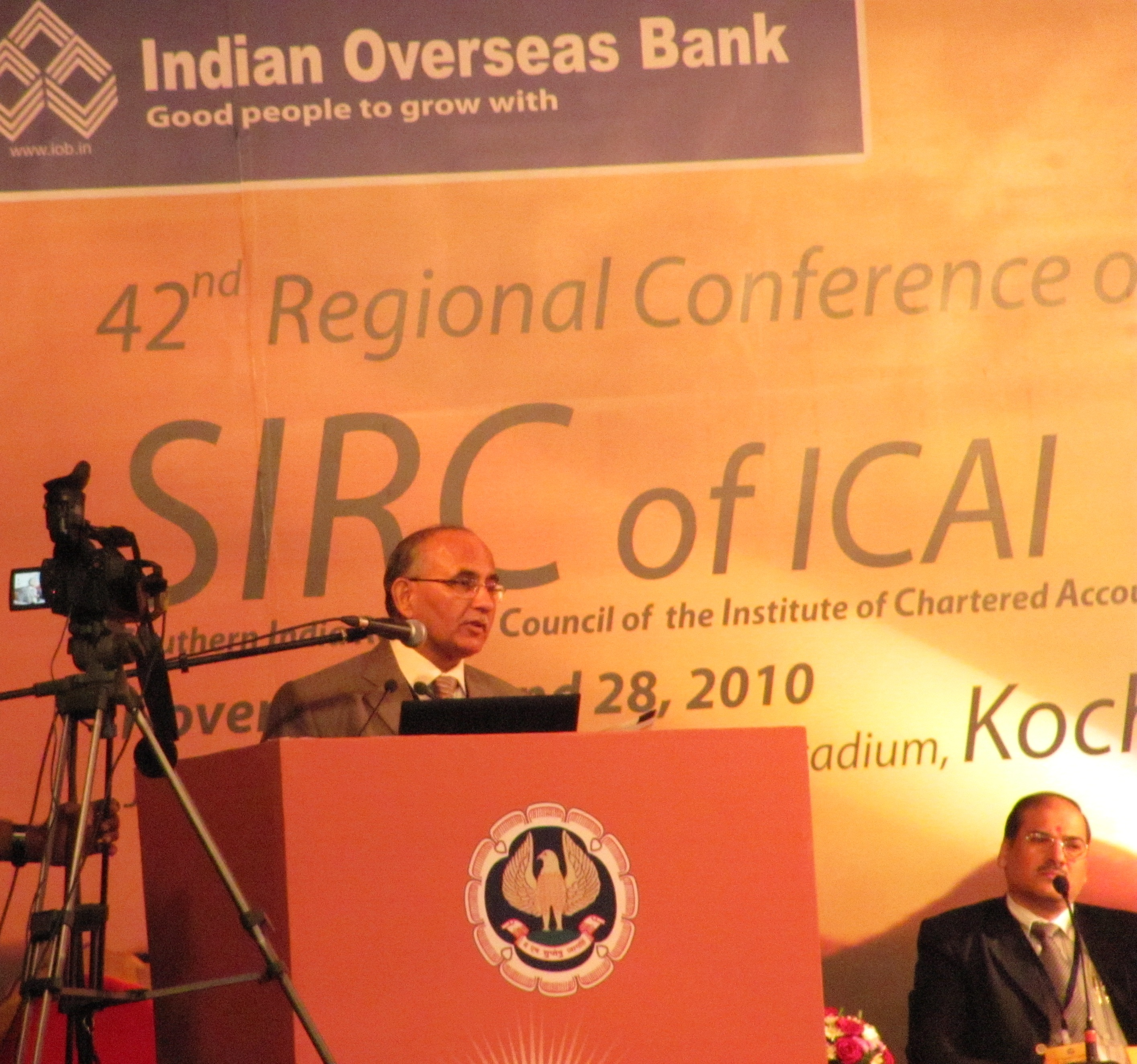 CA. Amarjit Chopra,President,ICAI addressing the delegates at 42nd Regional Conference of SIRC of Institute of Chartered Accountants of India Location: Kochi, Kerala